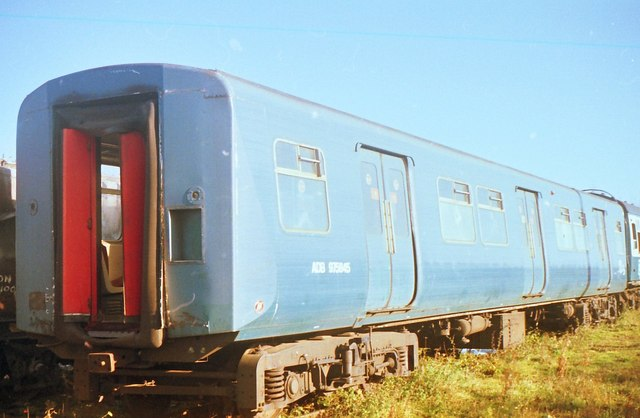 Experimental Railway Coach. This vehicle was known as a PEP. Photographed at the premises of Bird & Sons, Scrap Yard at Long Marston shortly before it was scrapped in 1986.